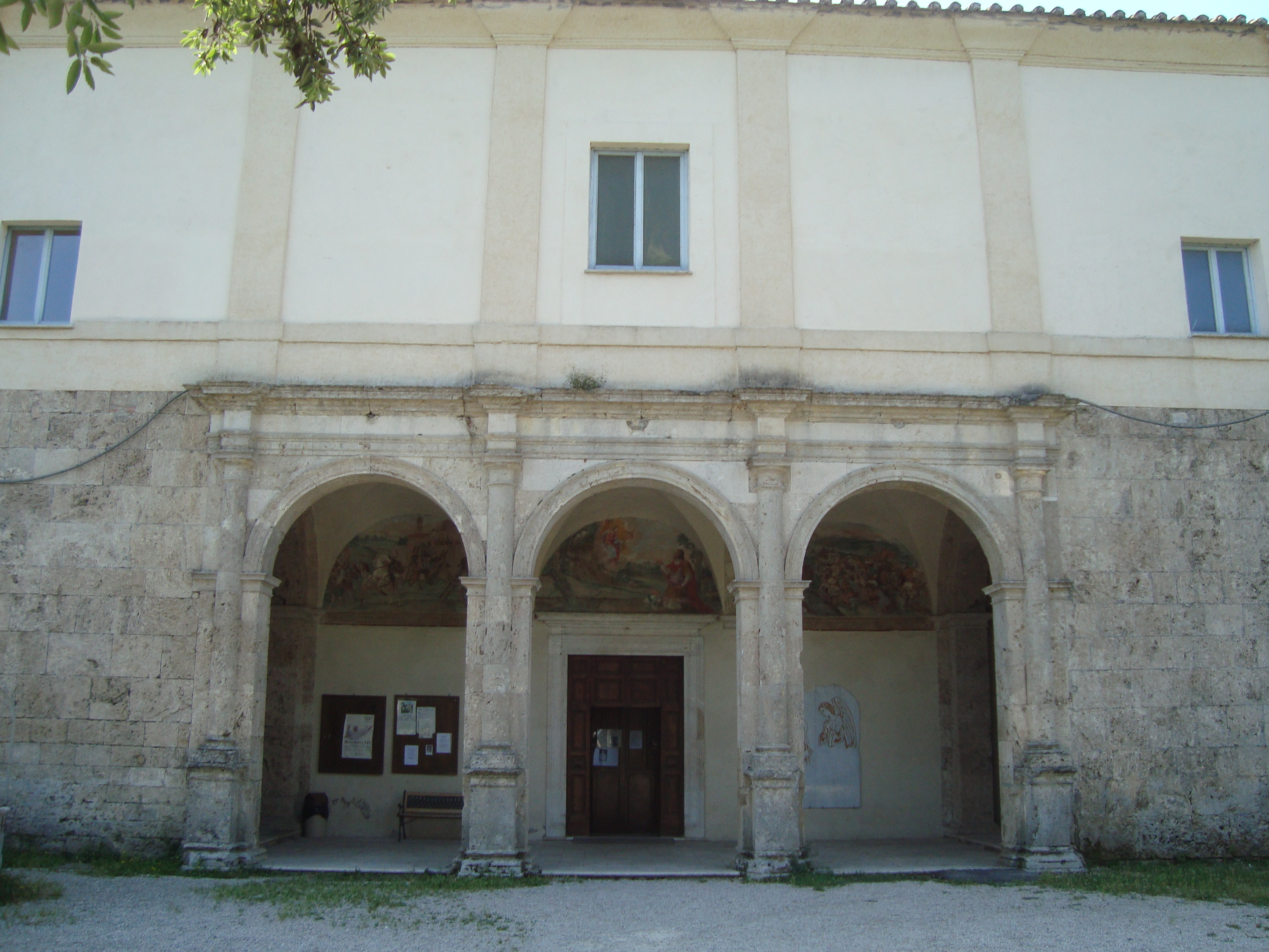 The facade of the Covent San Cosimato in Vicovaro. The Portico is made in travertine (typo cardinale) and hosts frescoes.